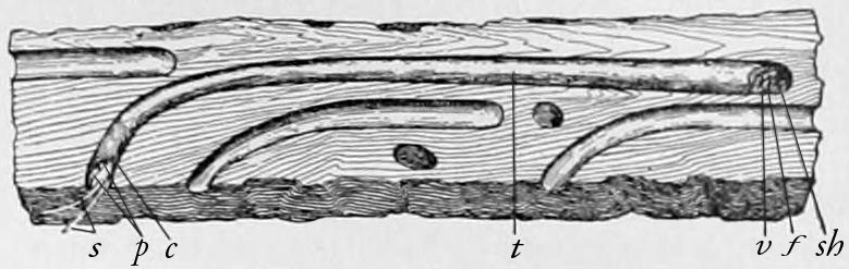 Cross-section diagram of a piece of wood showing shipworms embedded in it and labeling the parts of one.